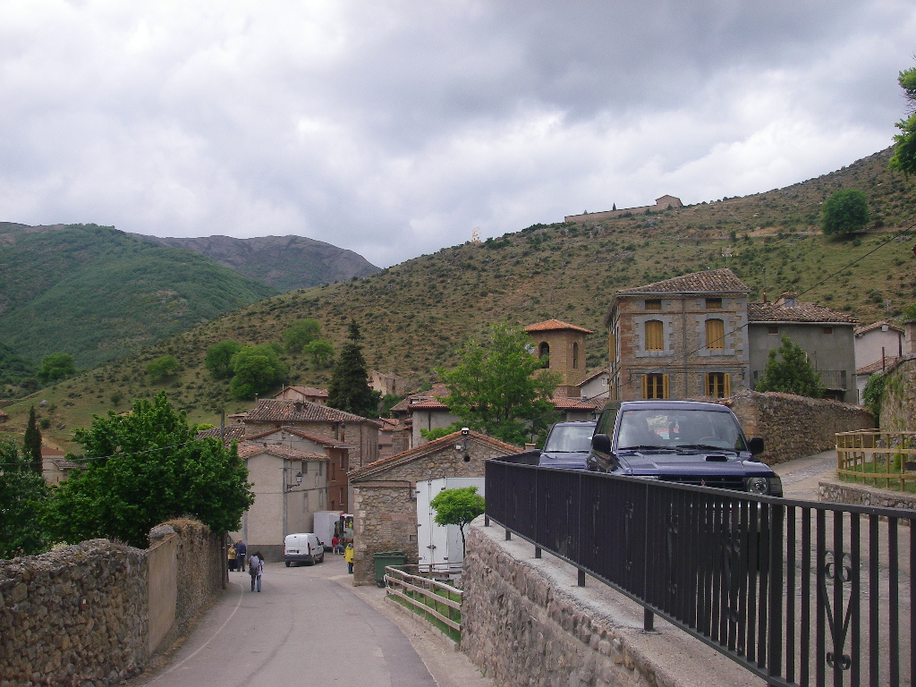 View of Brieva de Cameros (La Rioja, Spain)